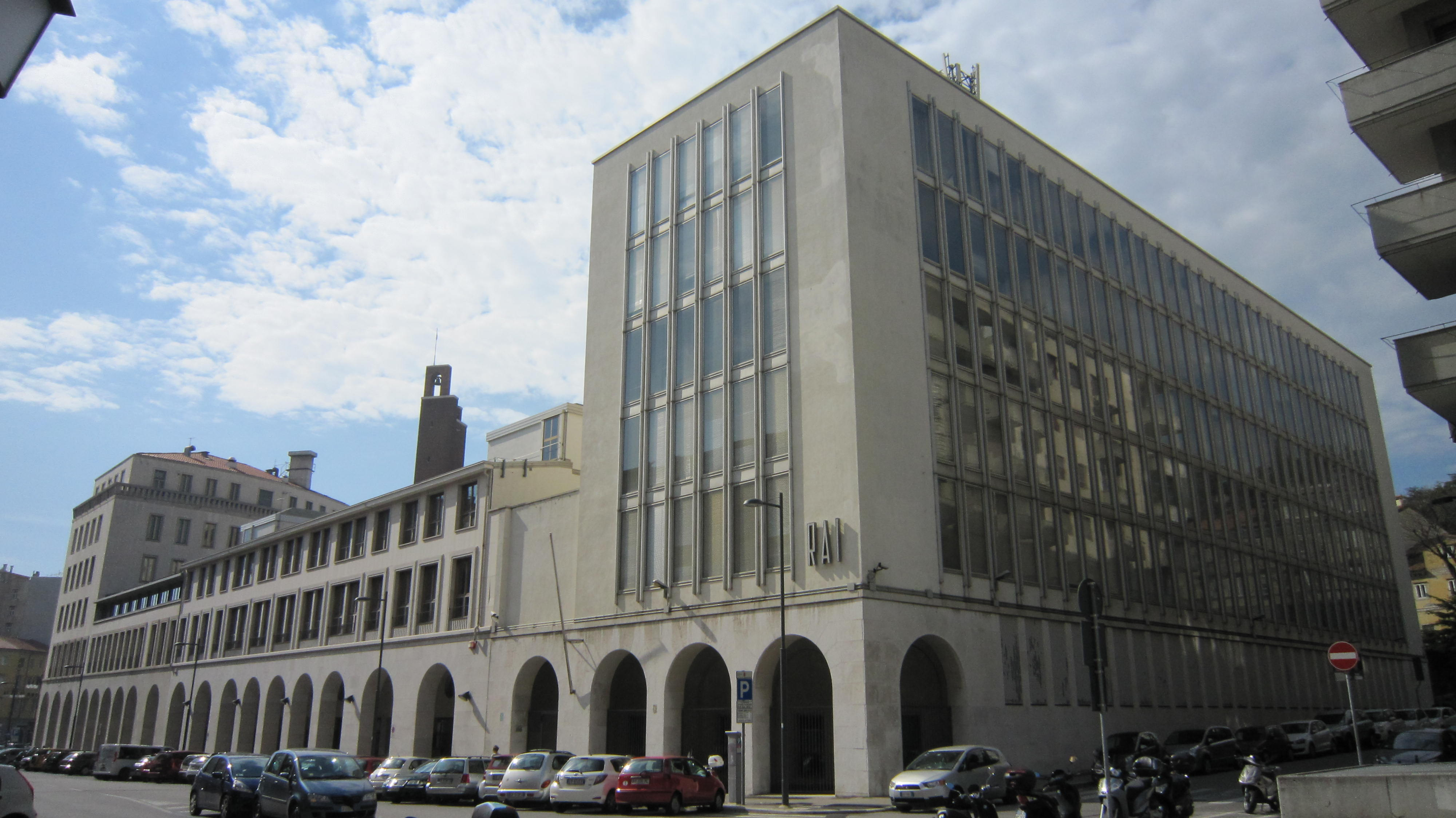 sede rai fvg ts